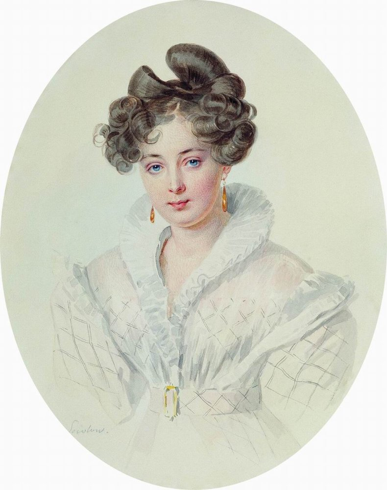 Portrait of a woman (possibly Sophia Alexandrovna Radzivil)